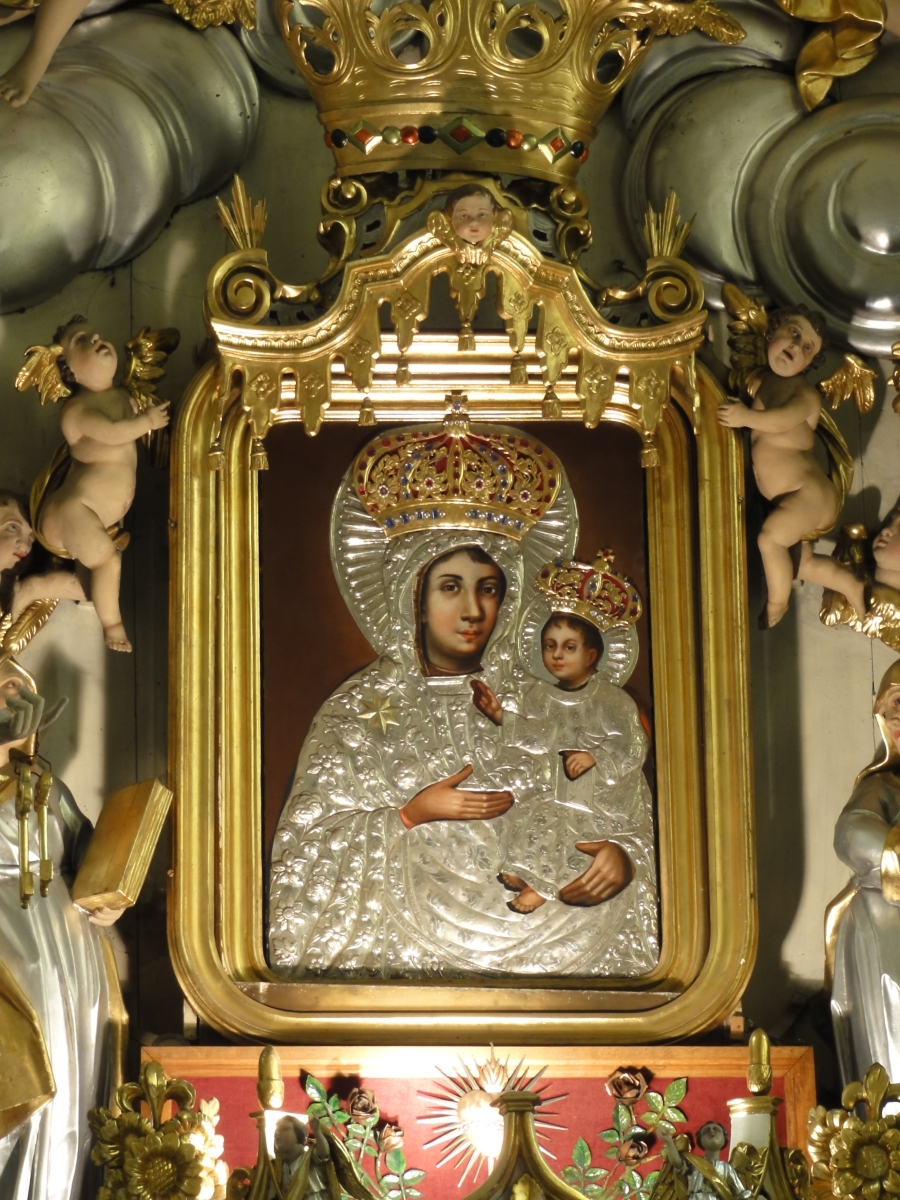 Icon on Our Lady of the Rosary of Mrzygłód, Myszków, Poland